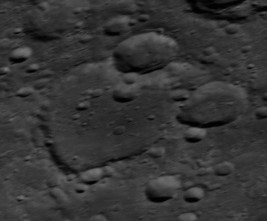 Oblique view of Deutsch, on the far side of the moon. Facing east (north is at left).